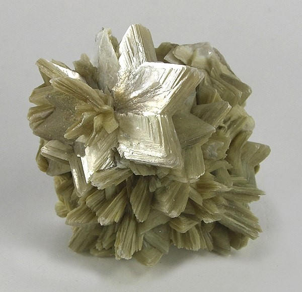 Muscovite Locality: Minas Gerais, Southeast Region, Brazil (Locality at ) It is obvious why this is called "star" muscovite, and these specimens are just so unique and attractive for a mineral that is usually overlooked as rather dull. Just really pretty, is it not? 5.9 x 5.1 x 3.6 cm This Photo was Photo of the Day - 24th Dec 2006